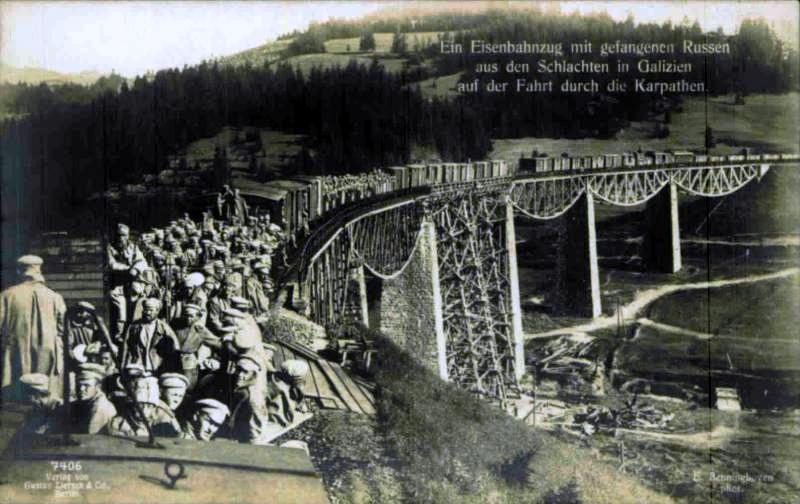 Ein Eisenbahnzug mit gefangenen Russen aus den Schlachten in Galizien auf der Fahrt durch die Karpathen in 1915